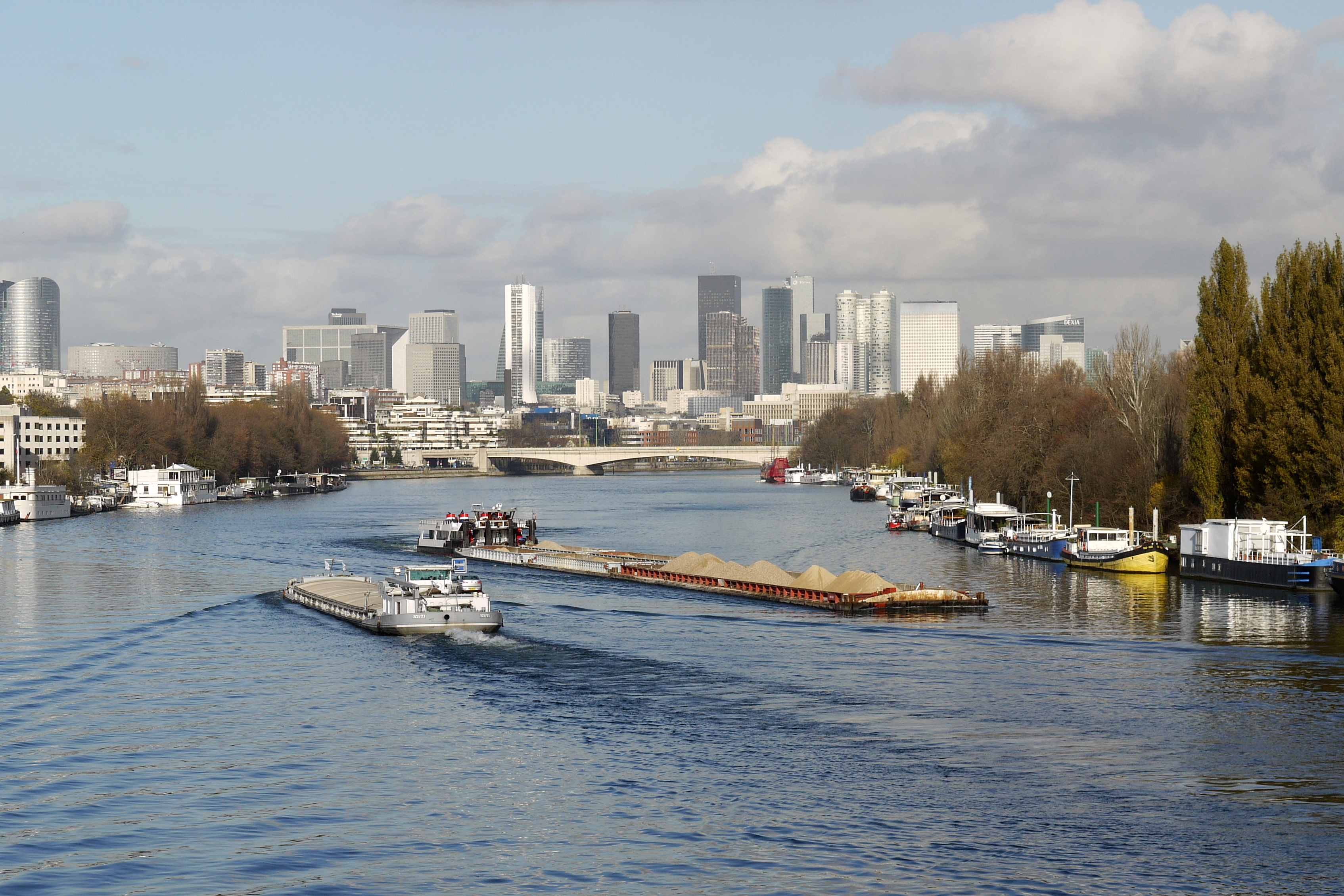 Barges, Paris, France (La Defense district skyline in the background)